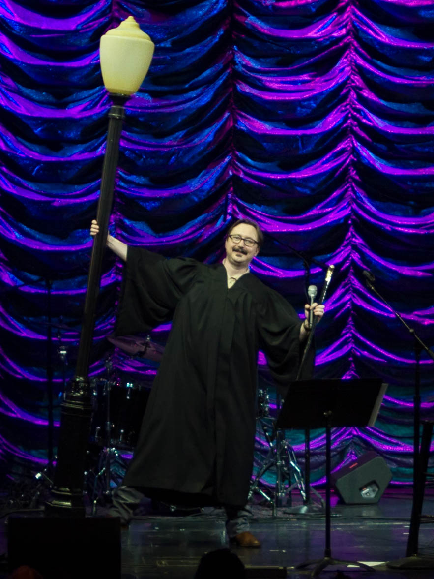 Live recording of Judge John Hodgman at JoCo Cruise Crazy III in 2013.